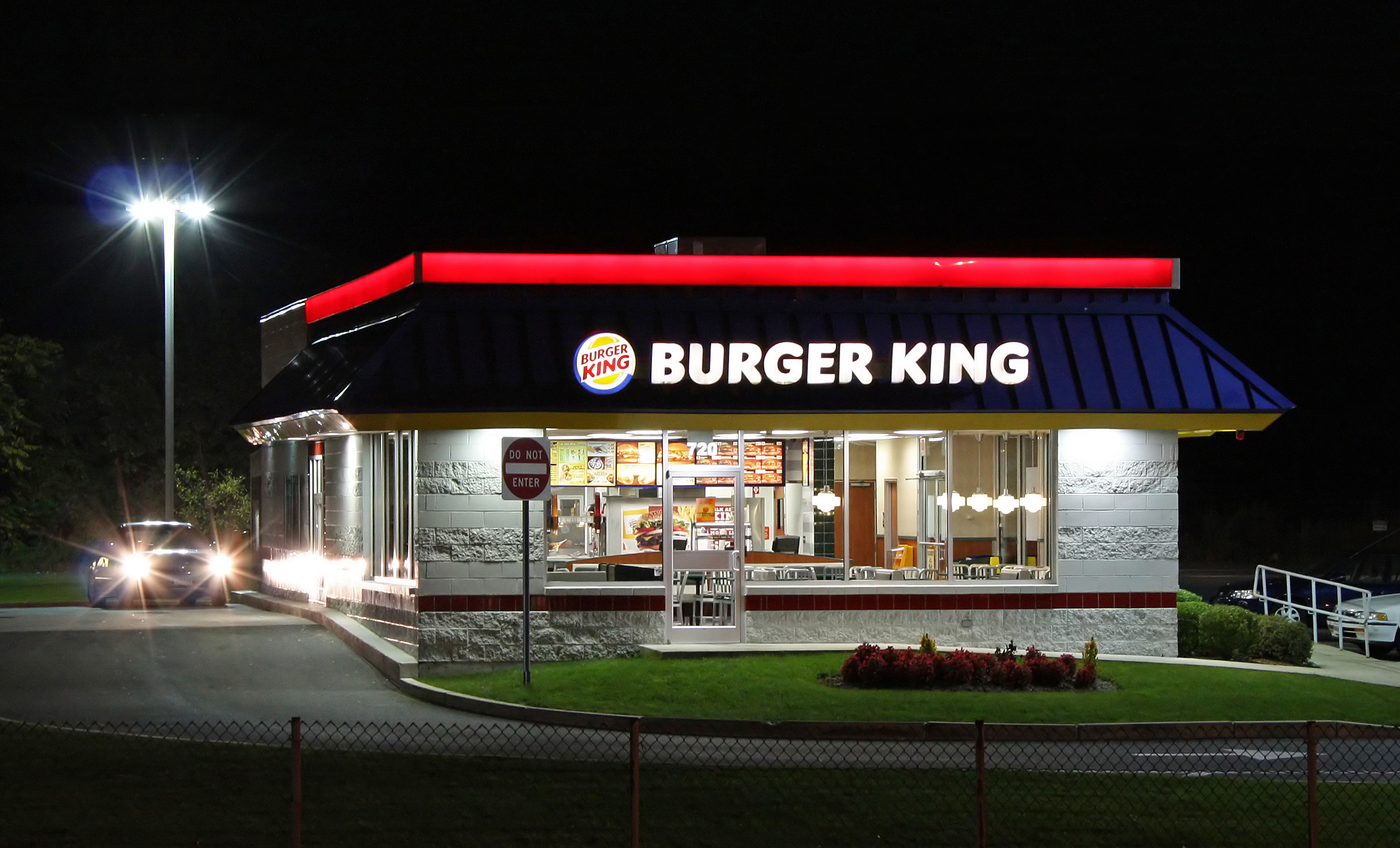 Burger King Restaurant, Rt.1 Saugus, Massachusetts USA. Night view.